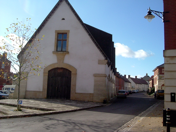 Poundbury in Dorset. Taken by Joe D en::en:November 4 en::en:2004. en::en:nl:Afbeelding:Dorset poundbury 01.jpg